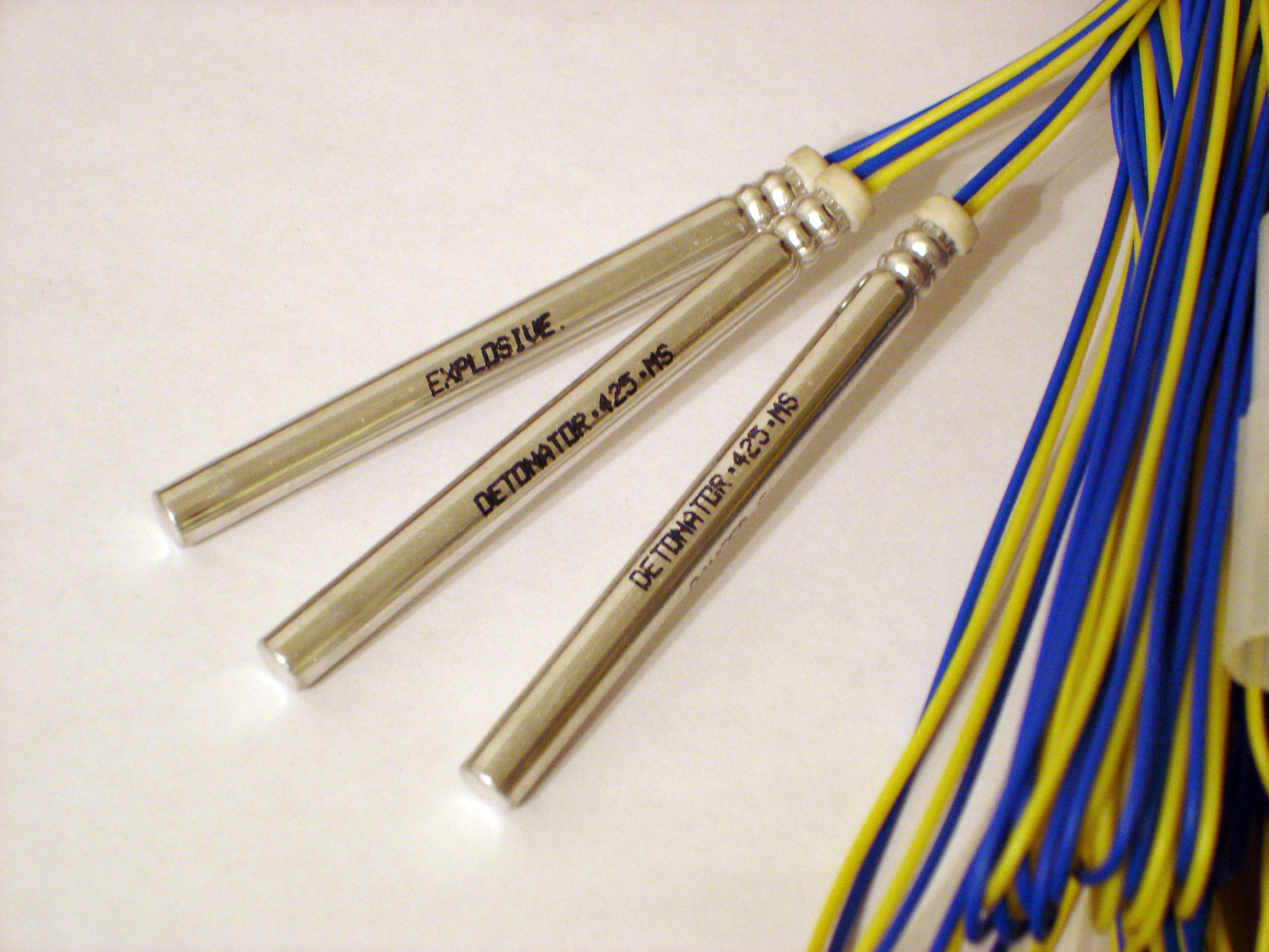 European Class 2 blasting caps from FORCIT, Finland